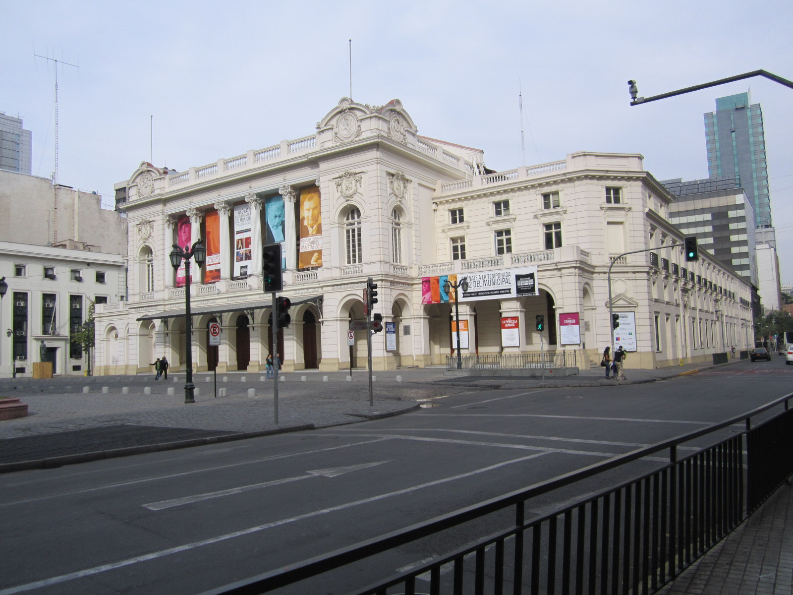 This is a photo of a national monument in Chile: 208